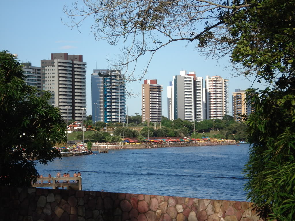 Manaus city, Brazil